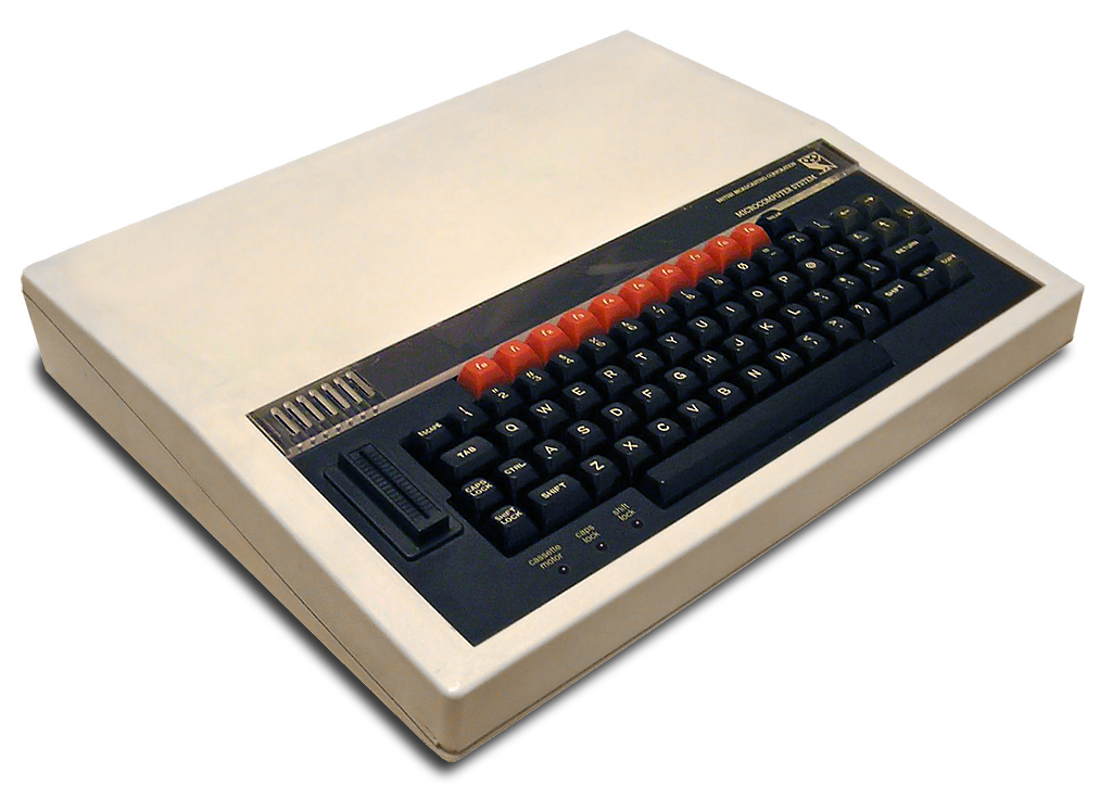 BBC Micro